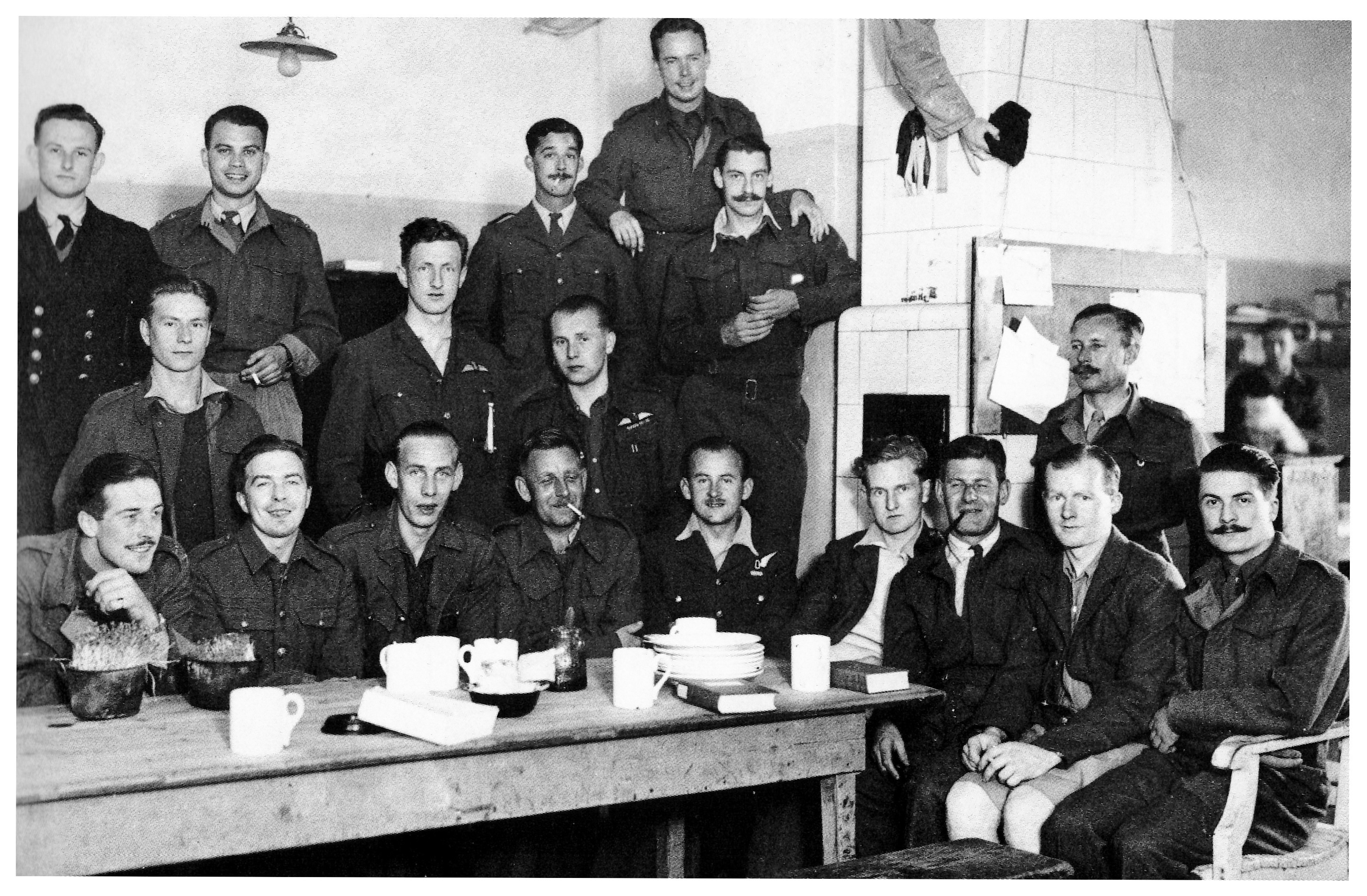 Dominic Bruce photo Colditz